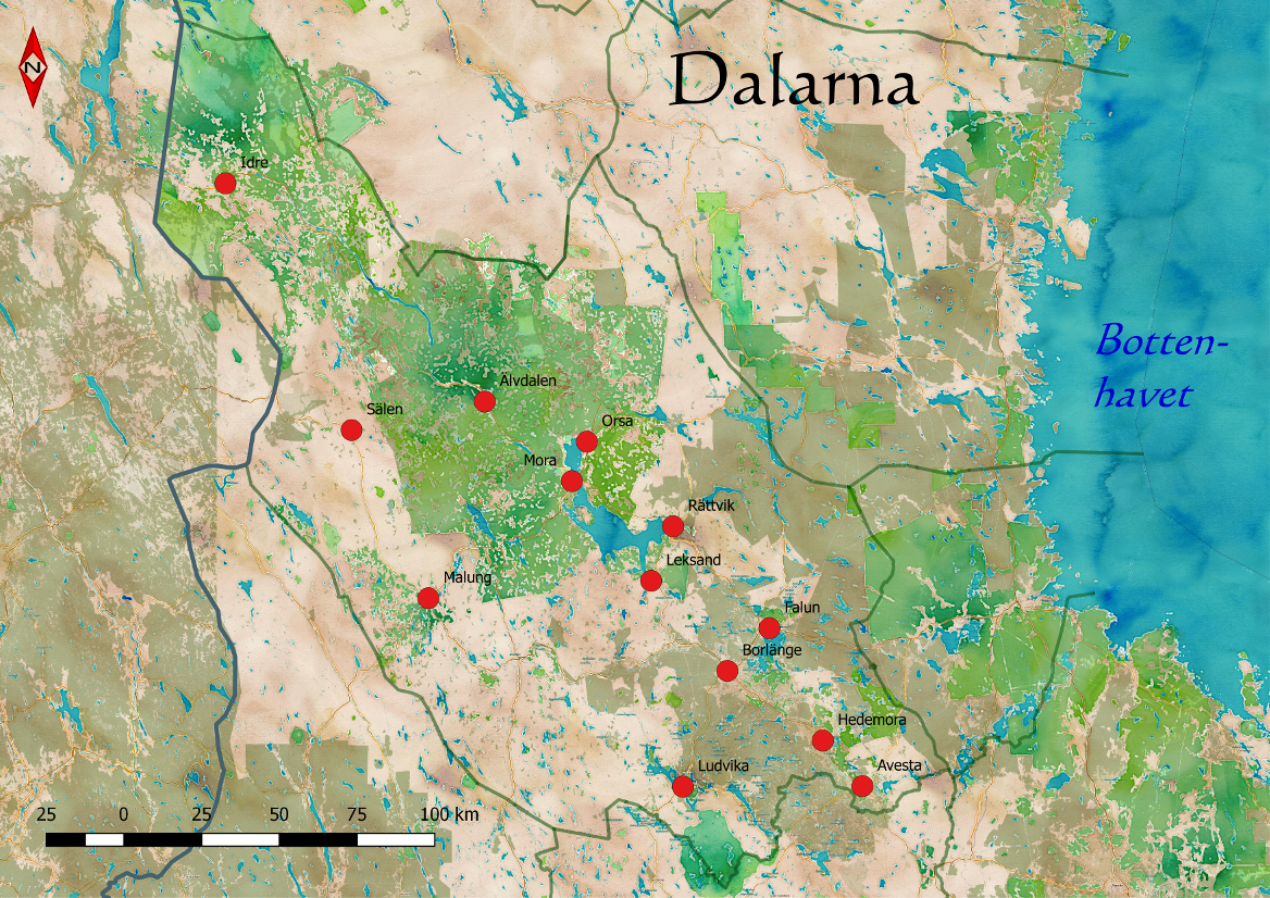 A simplified map for the Swedish region Dalarna intended to be used by children in elementary school. This map may be incomplete, and may contain errors. Don't rely solely on it for navigation.